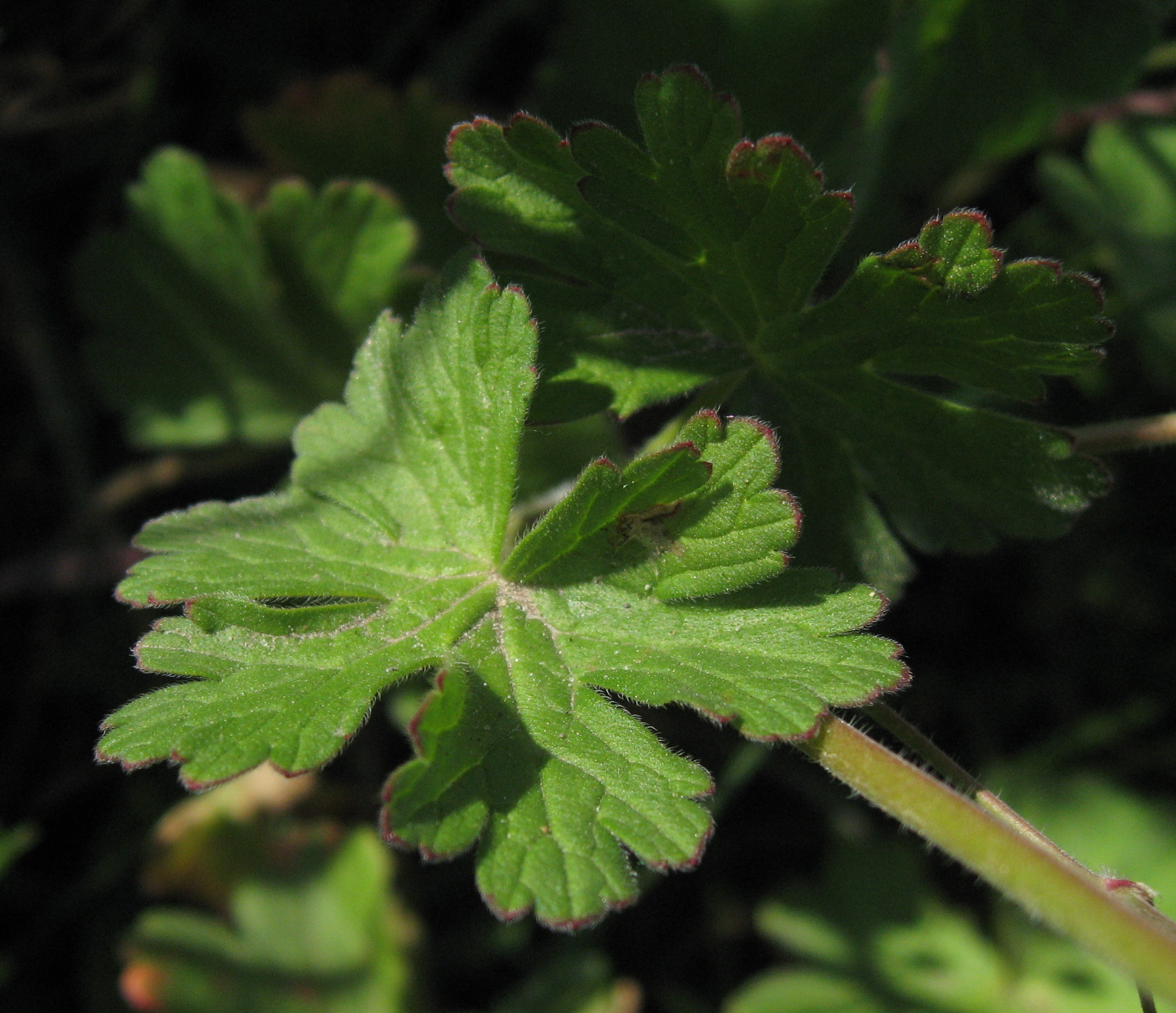 Geranium pyrenaicum (Pyrenean Cranesbill) north of Aarhus, Denmark.